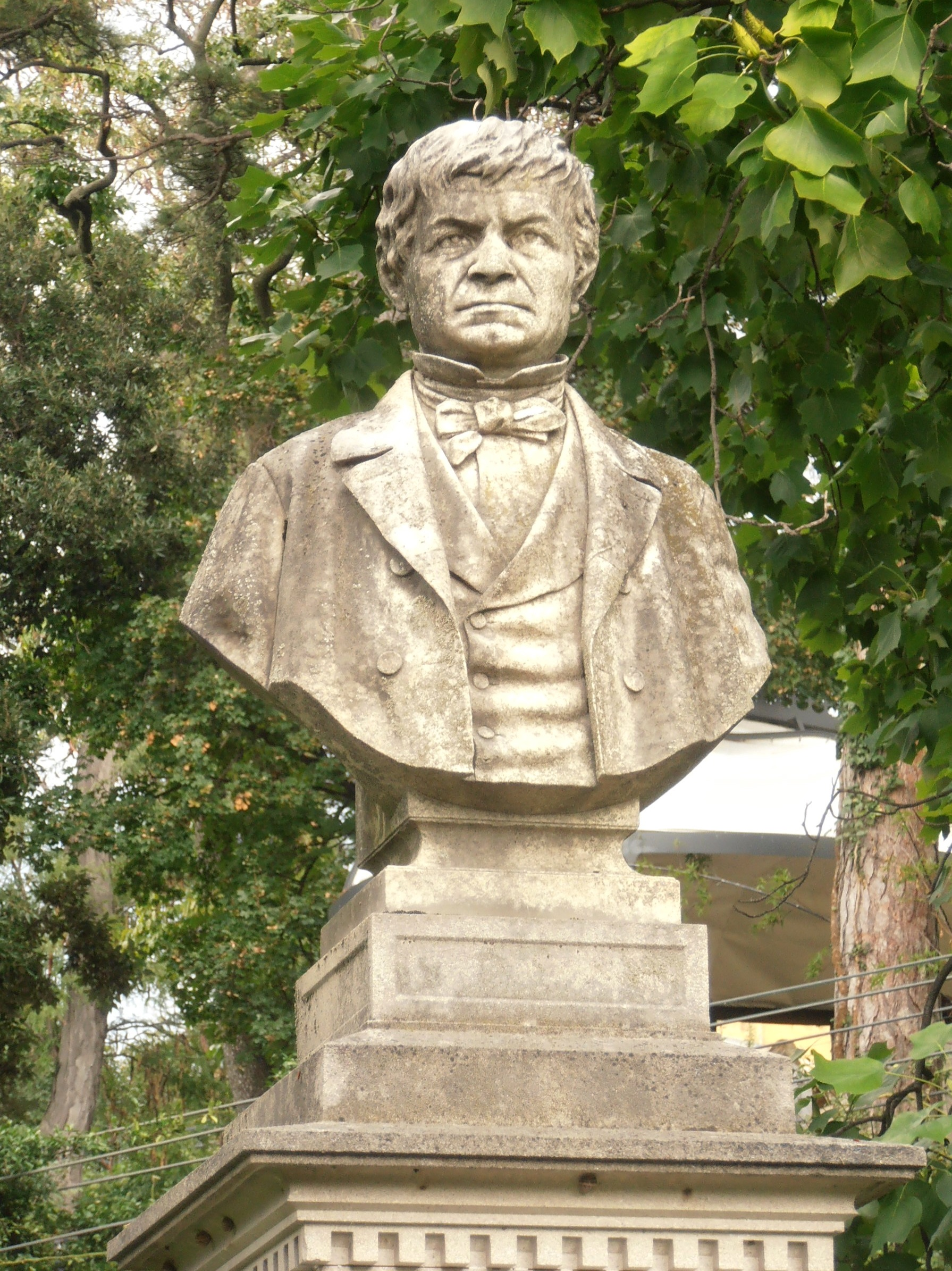 Italy - Trieste - Orto botanico - Bust of Bartolomeo Biasoletto